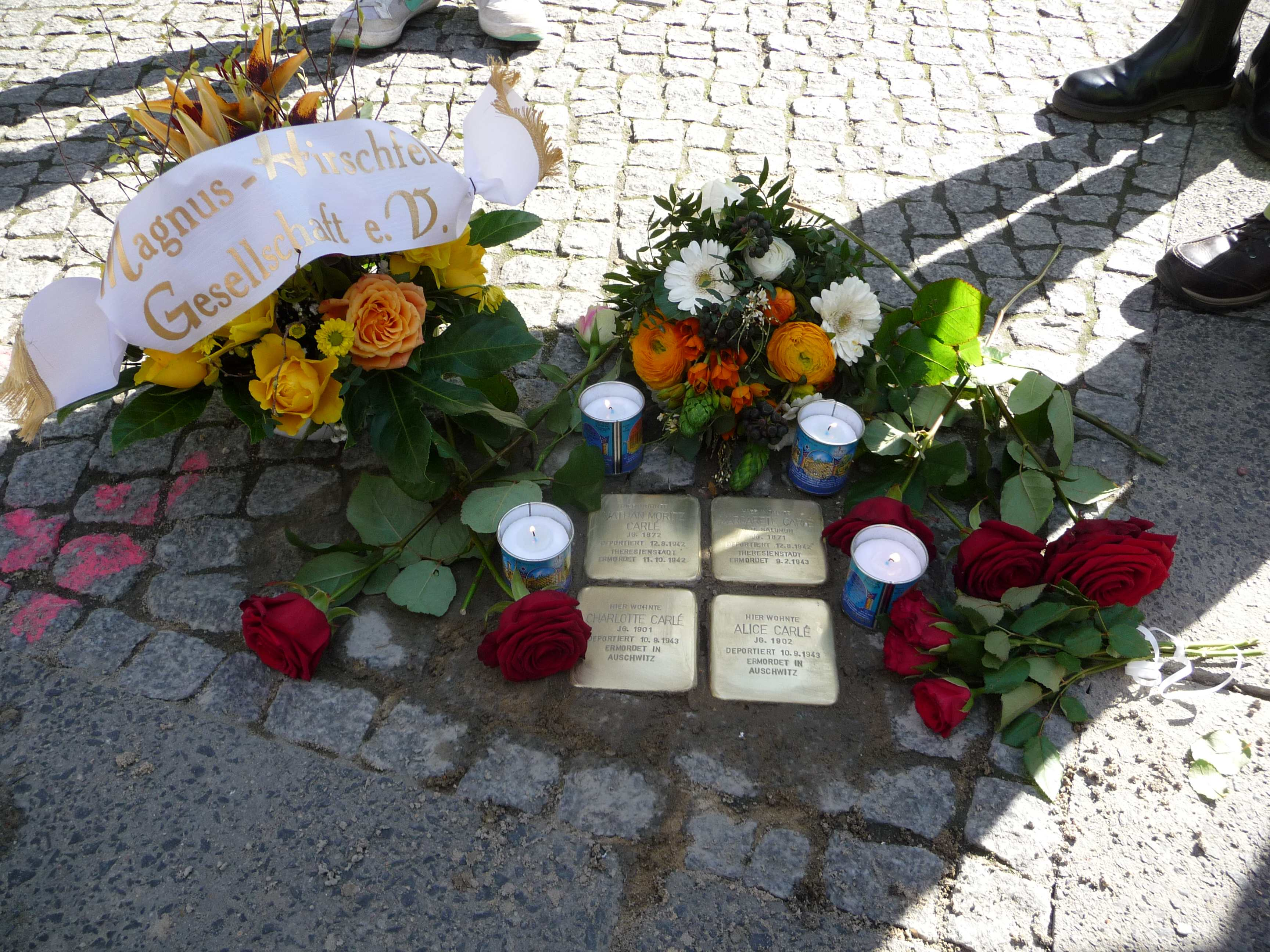 Carlé-Family stumbling blocks in Berlin-Mitte, Beuthstraße 10, Photo: Raimund Wolfert